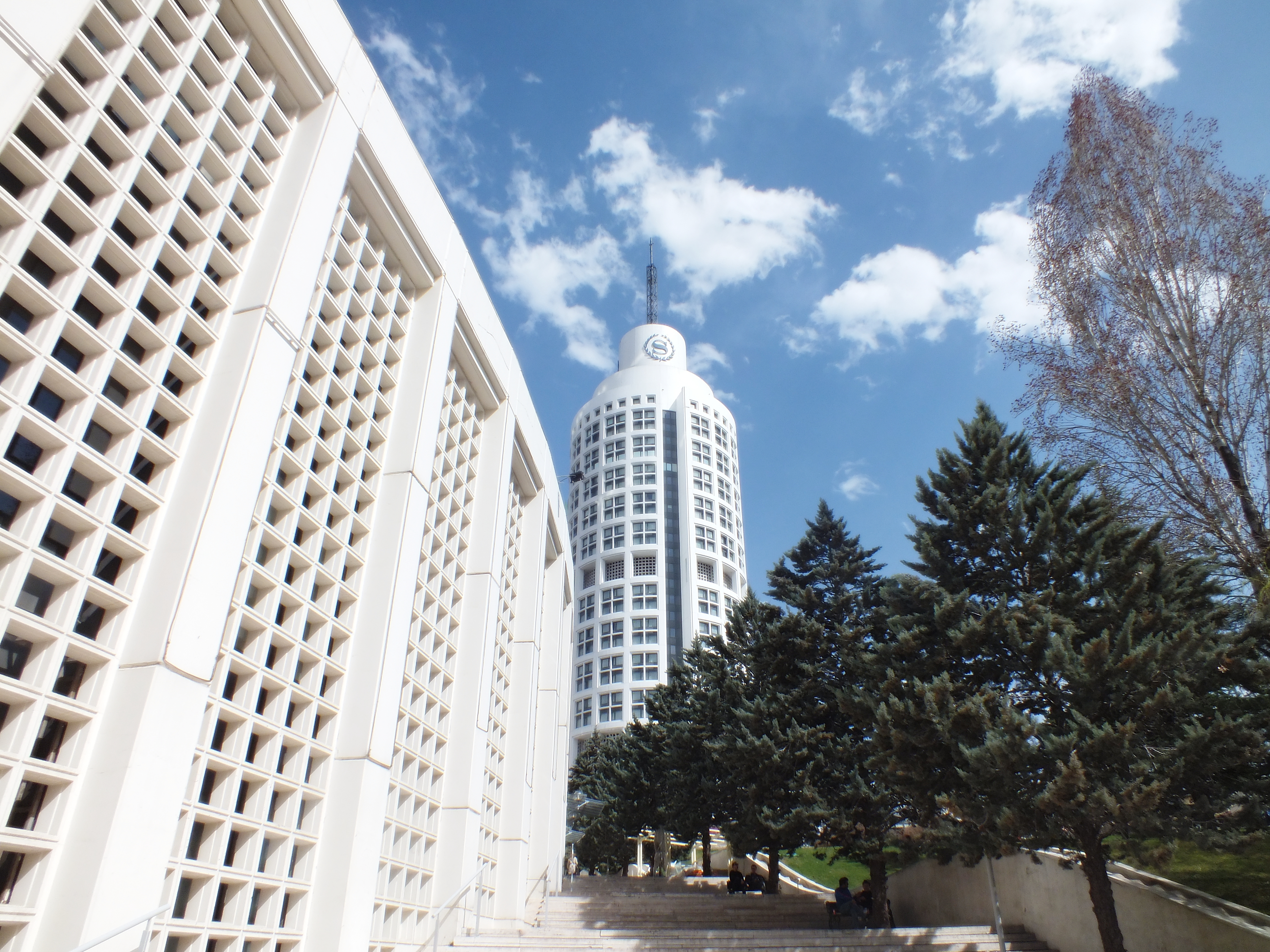 A view of Sheraton Ankara from Karum Shopping MallTürkçe: Sheraton Ankara'nın Karum'dan görünümü